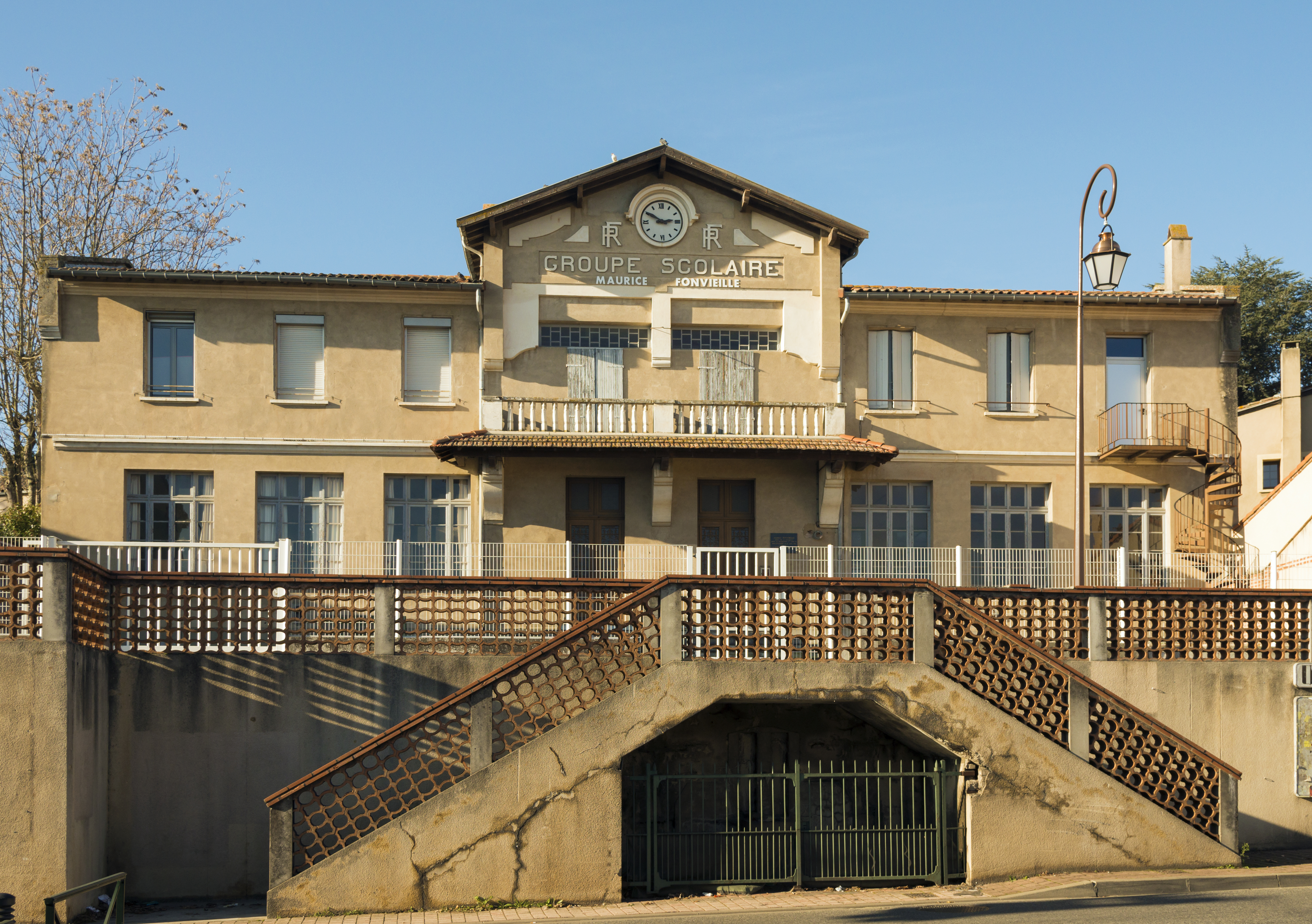 Pibrac, Haute-Garonne France - Maurice Fonvieille's school Groupe